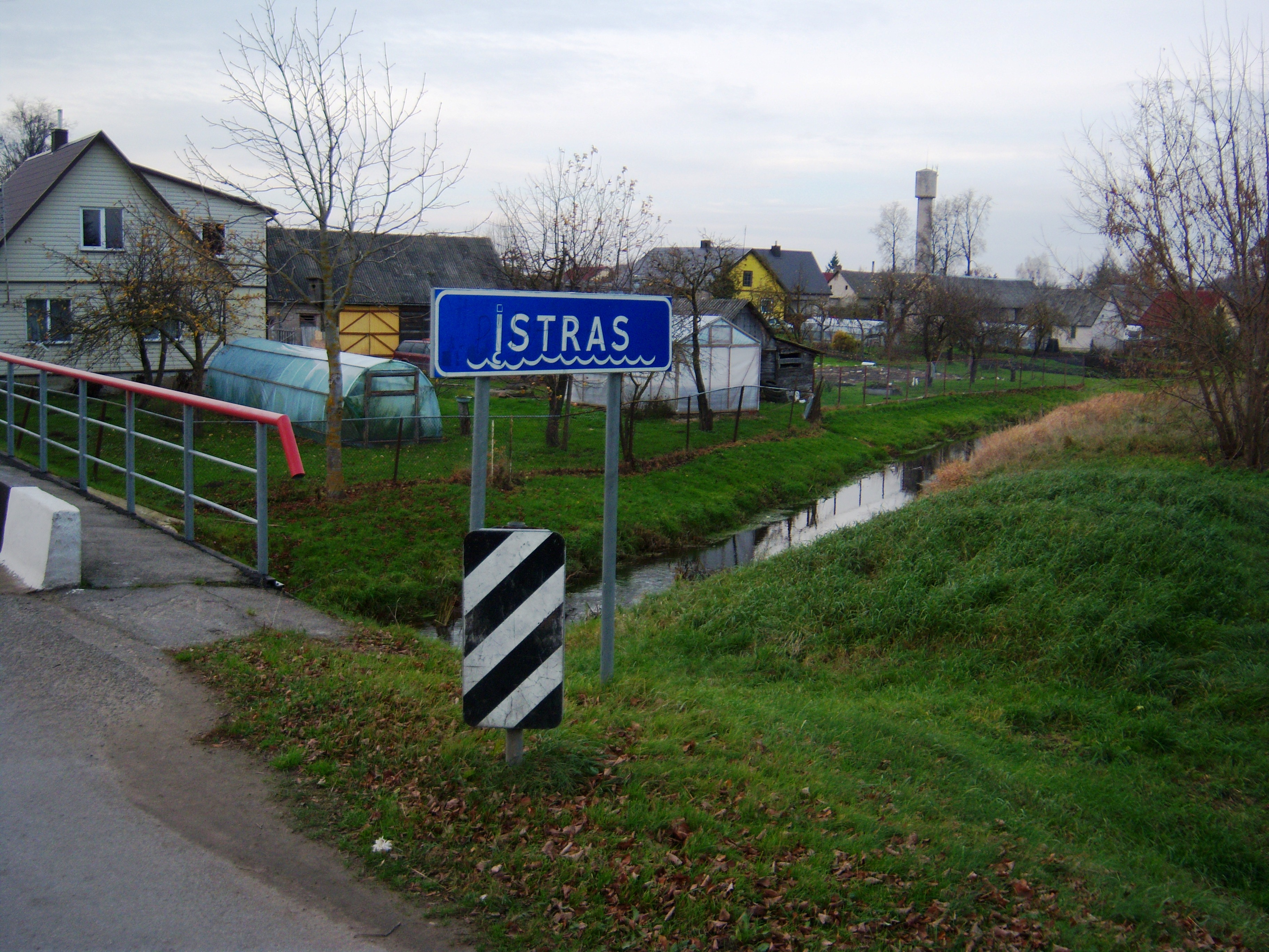 Įstras stream, Pumpėnai, Pasvalys District, Lithuania